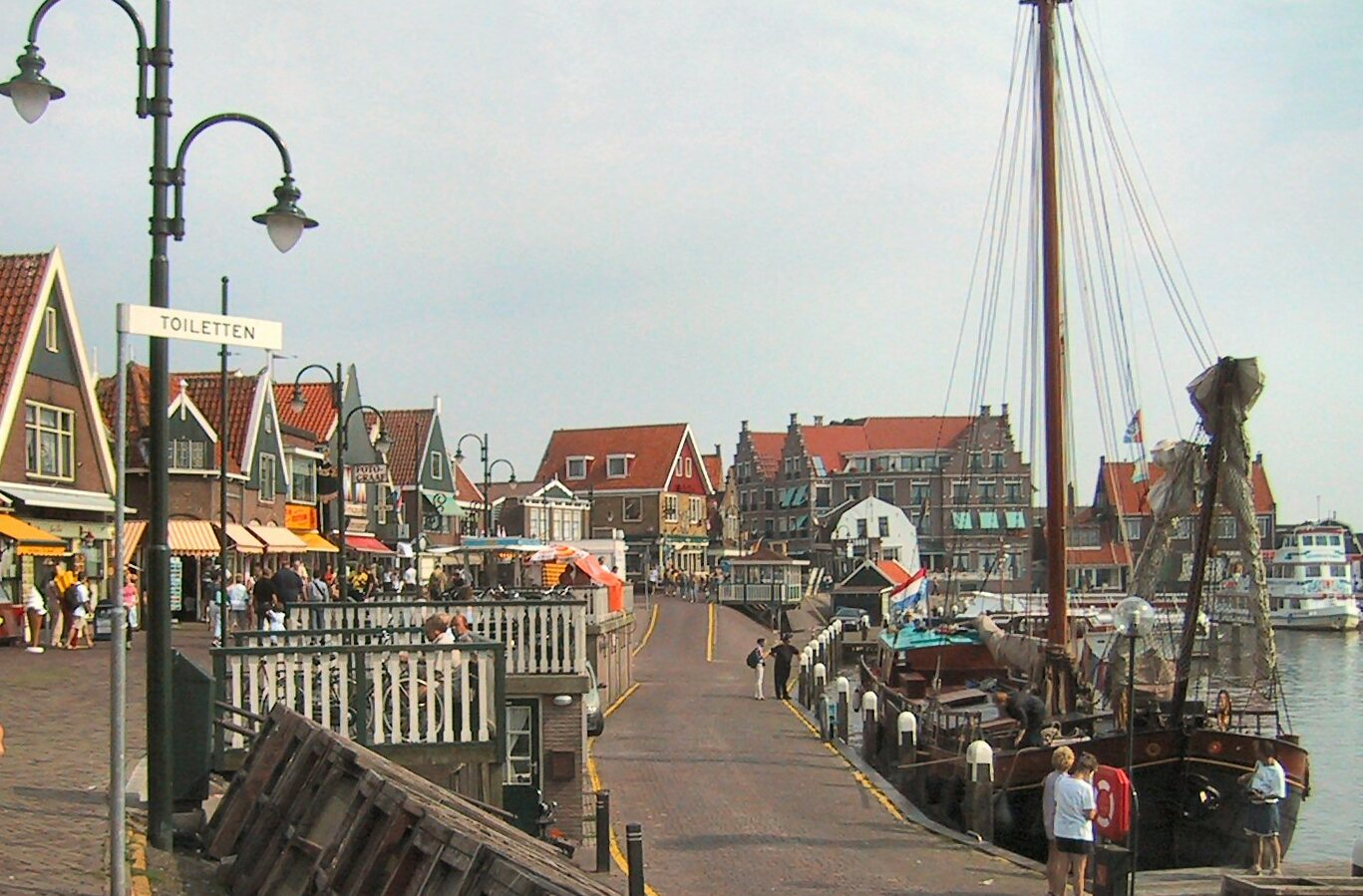 Harbour of Volendam, the Netherlands.